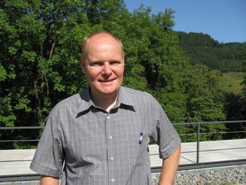 Volker Bach, Oberwolfach 2009